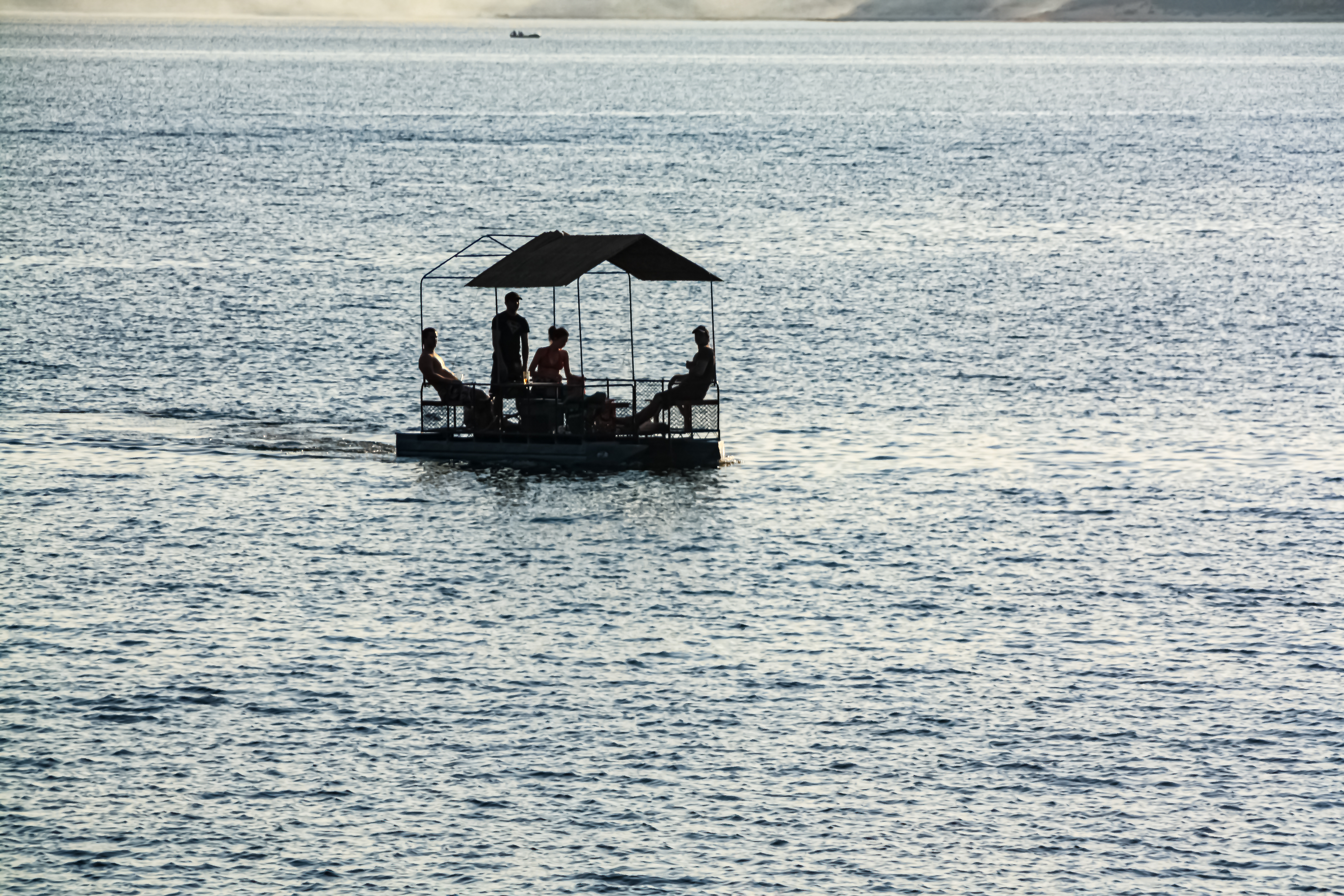 This is an image with the theme "Africa on the Move or Transport" from: Mozambique